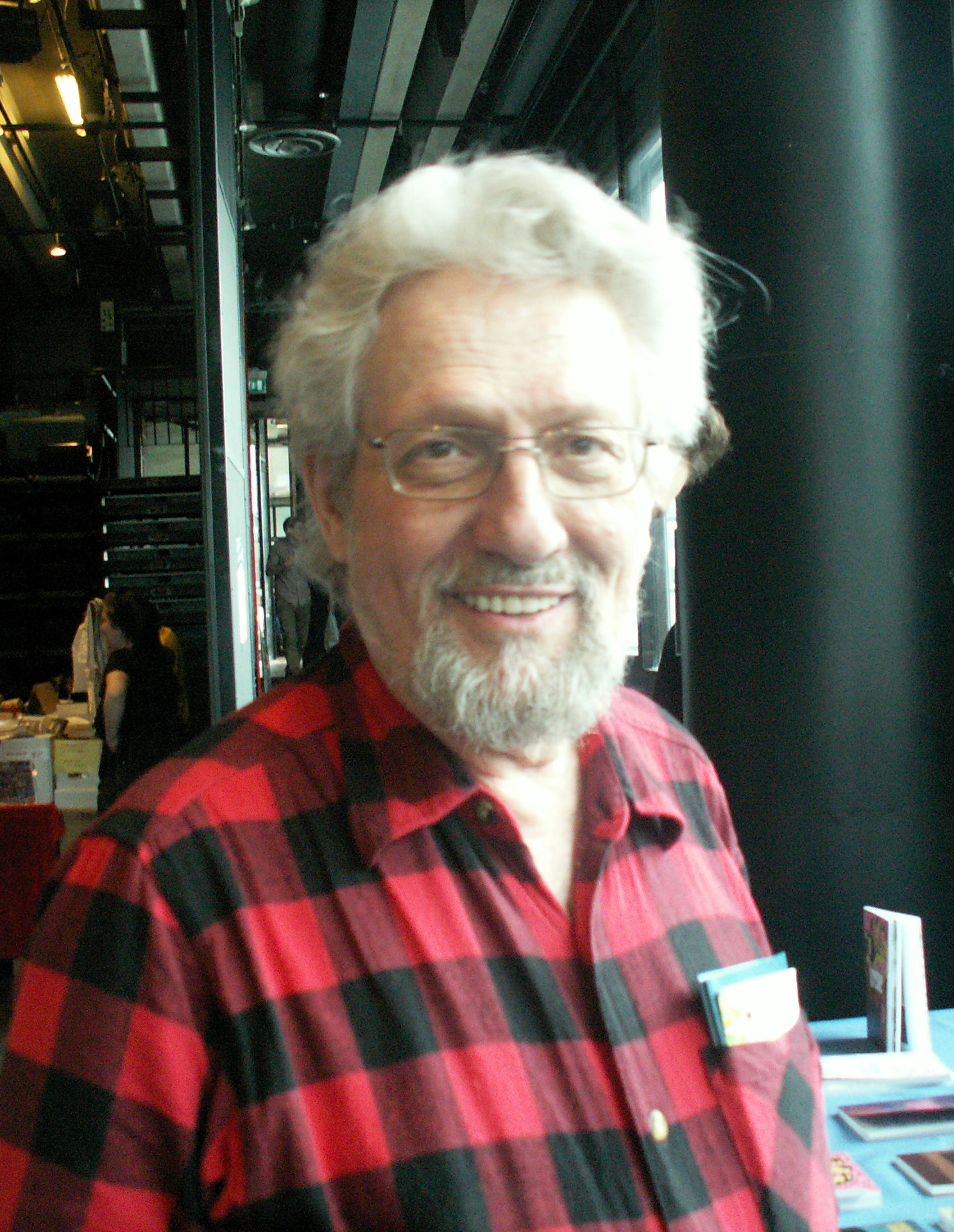 Book and comics publisher Horst Schröder, at the 2014 edition of the Stockholm international comics festival.